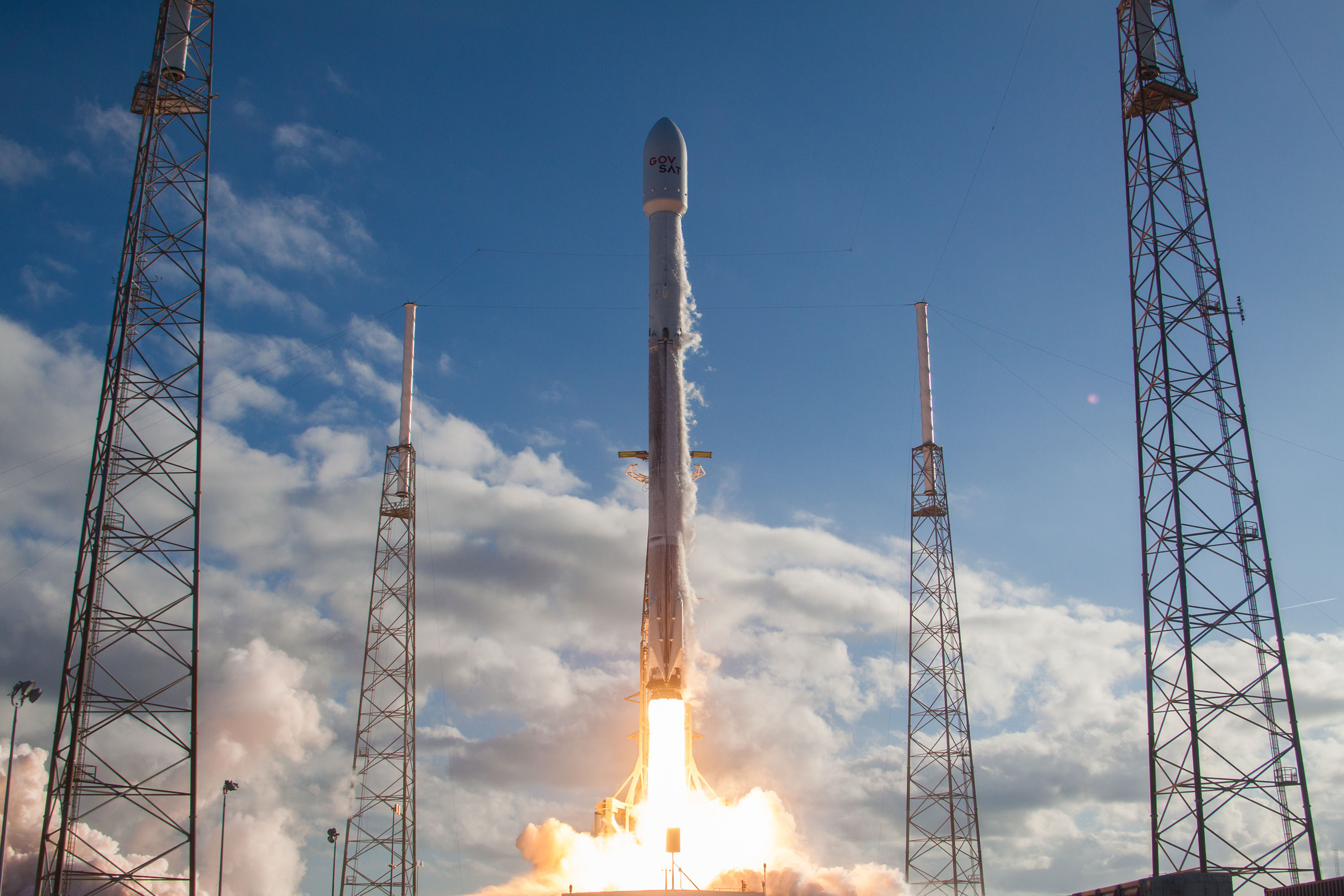 GovSat-1 Mission